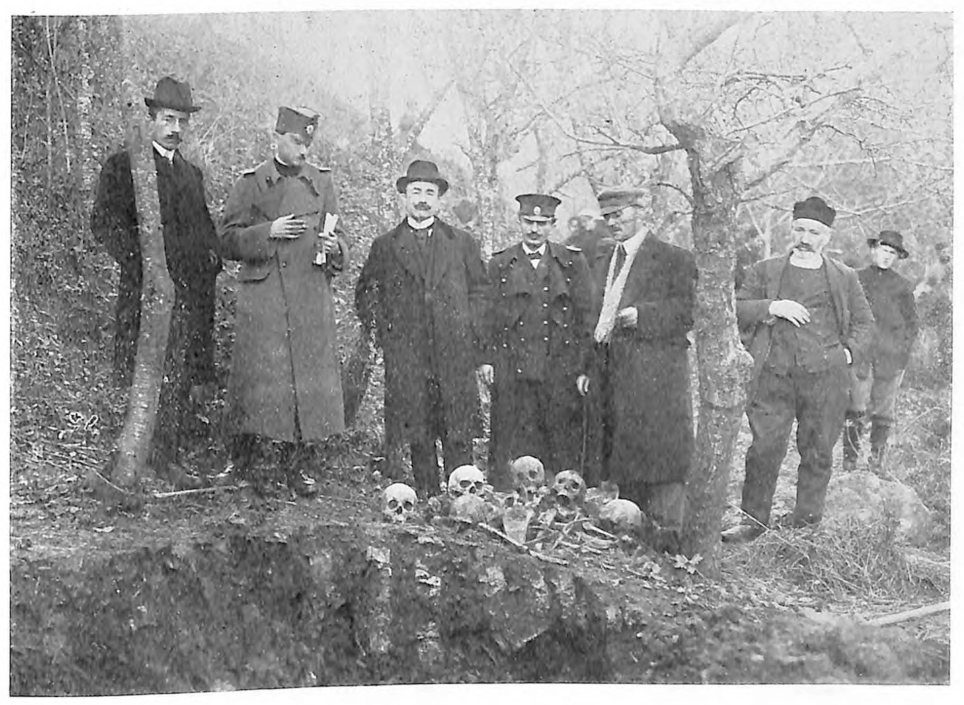 Skulls of the victims of the Surdulica massacre perpetrated by the Bulgarian occupational authorities between 1916 and 1917.